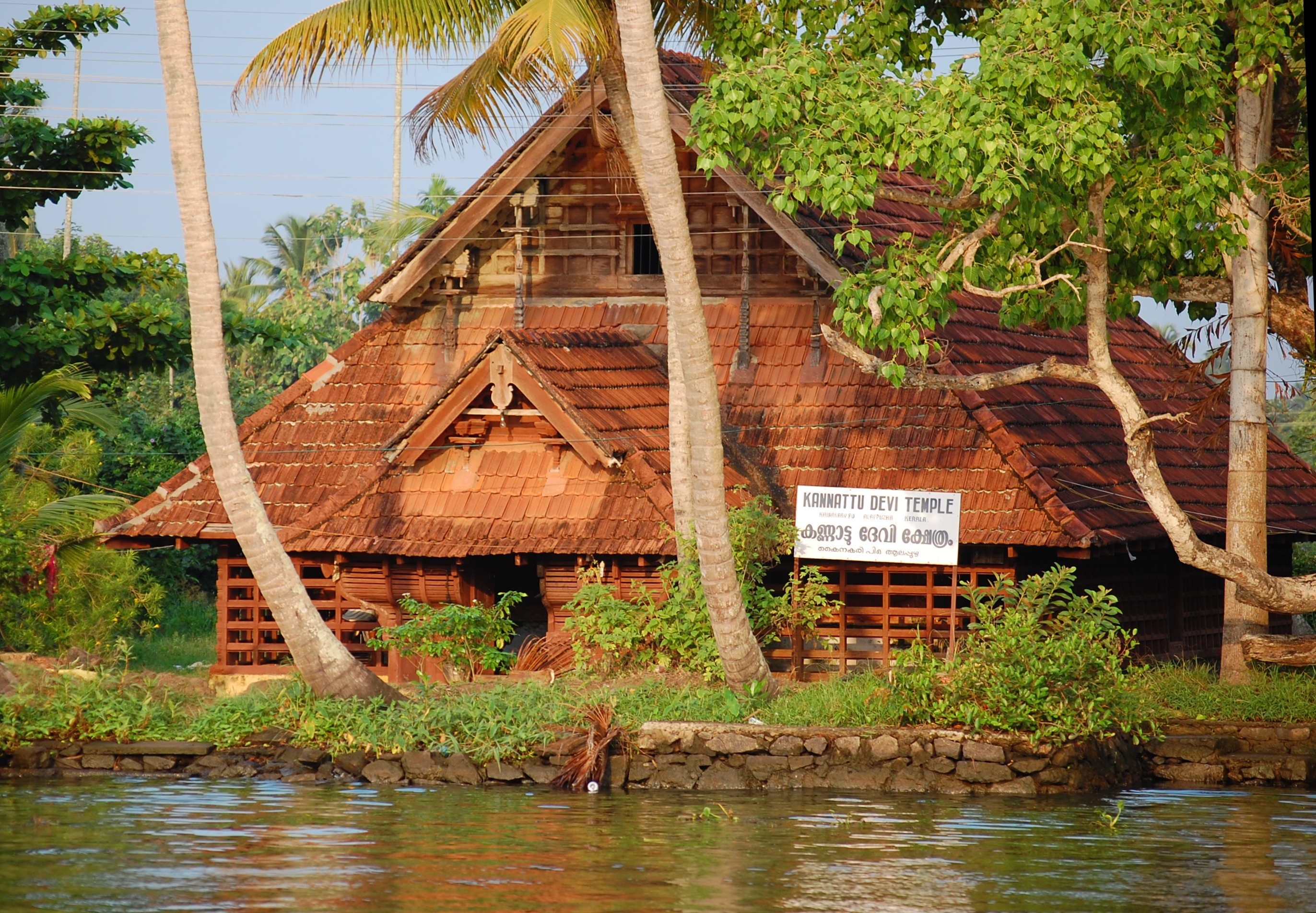 Kannat devi temple, Kainakary, Alappuzha, Keala